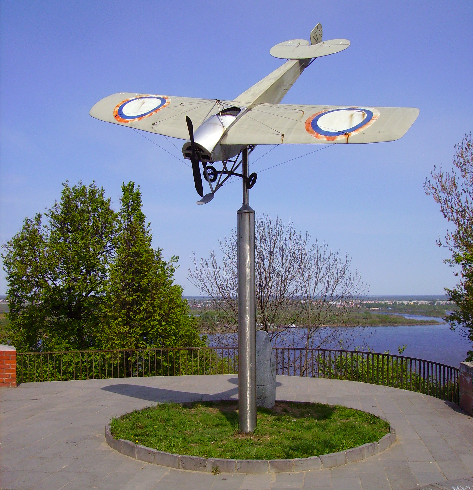 Nieuport 4 replica diplayed to Nizhny Novgorod.